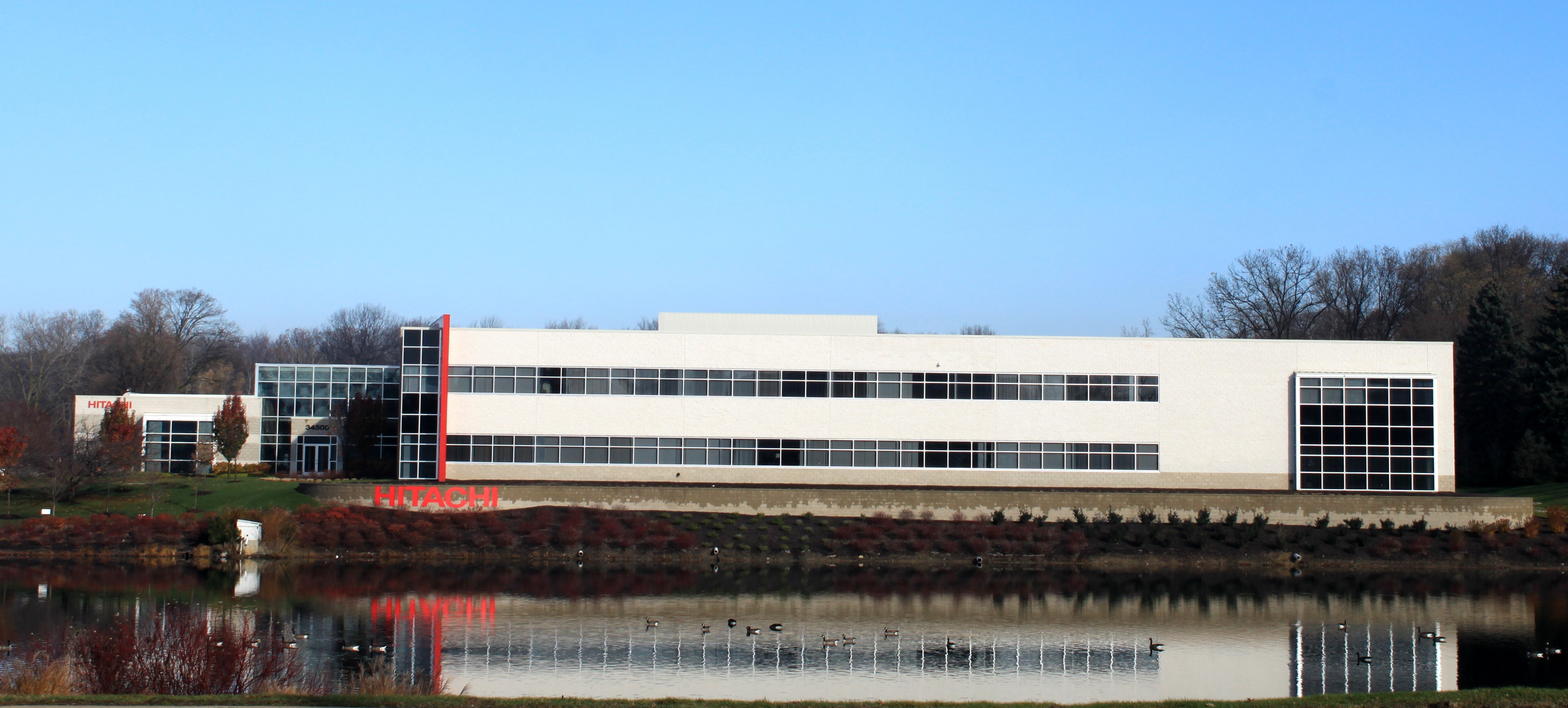 Hitachi Automotive Systems Americas Offices, 34500 Grand River Avenue, Farmington Hills, Michigan.